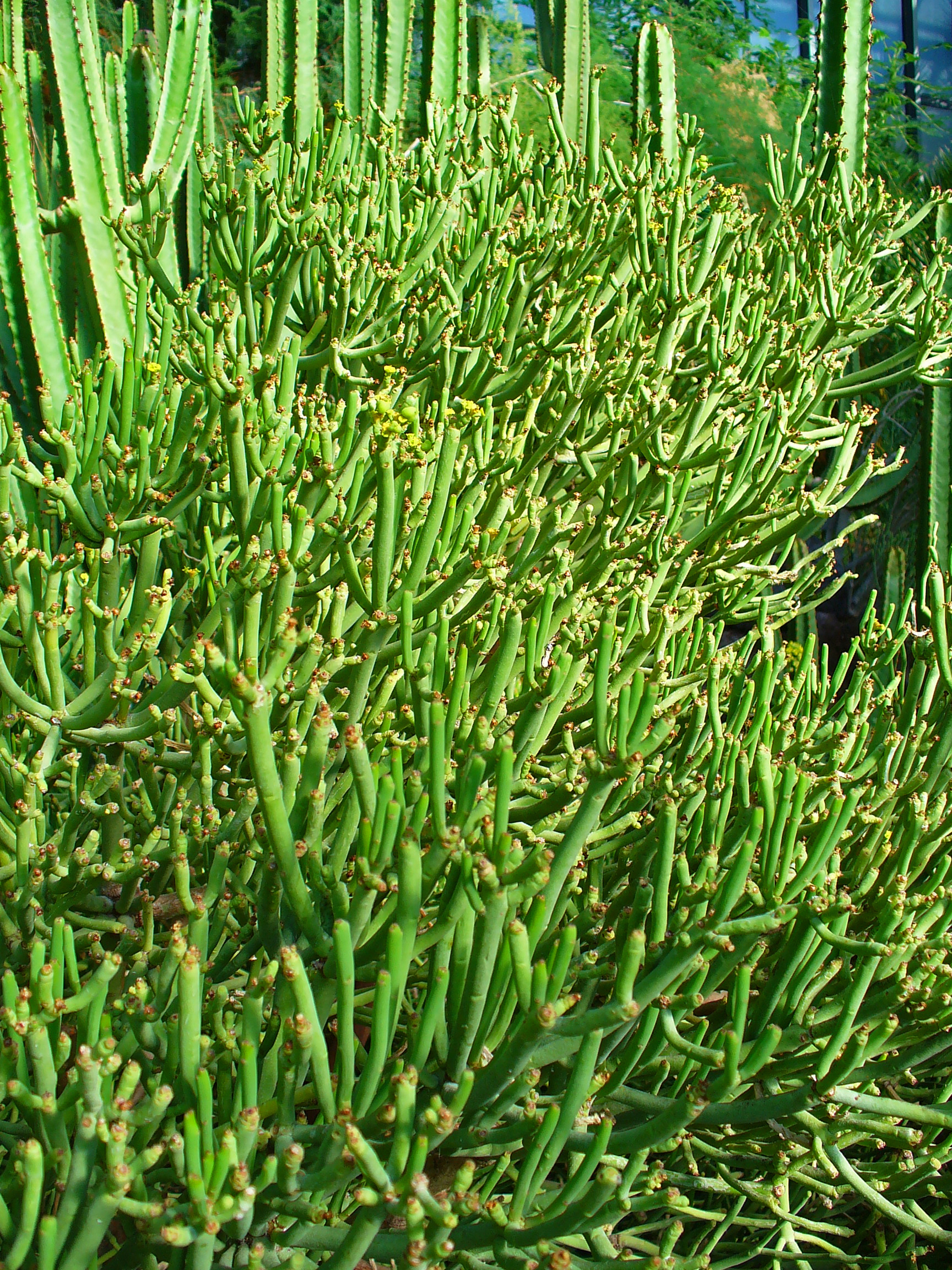 Euphorbia aphylla, Euphorbiaceae, Leafless Spurge, habitus; Botanic Garden Universiy Tübingen, Germany.